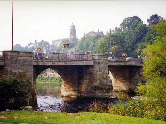 Bridgnorth Bridge Bridge over the River Severn at Bridgnorth.